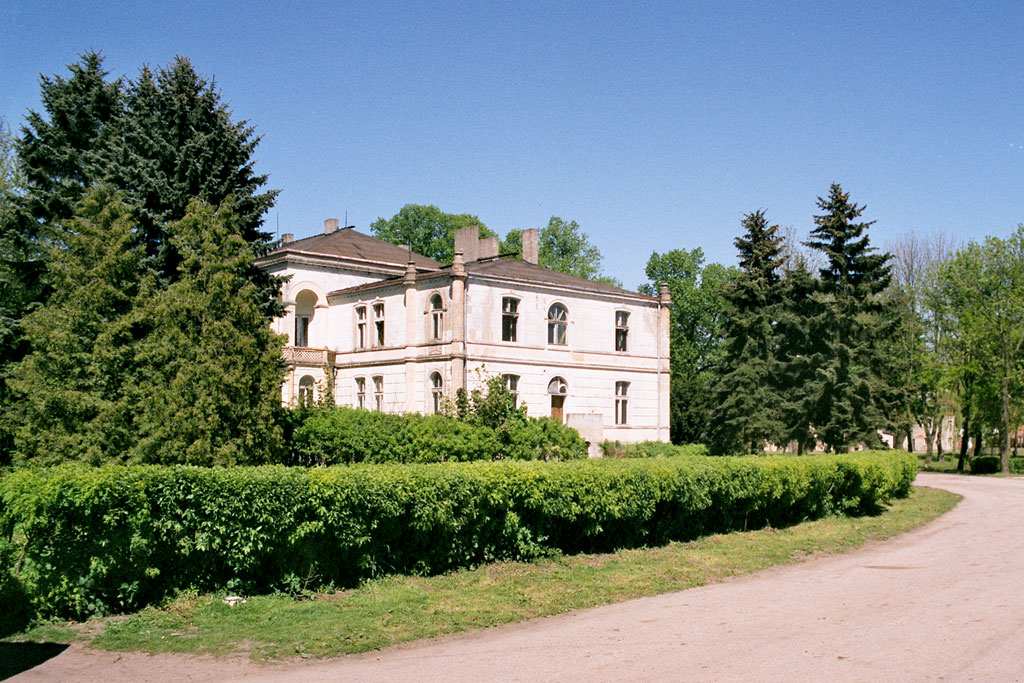 Ostaszewo near Toruń, Poland - manor house